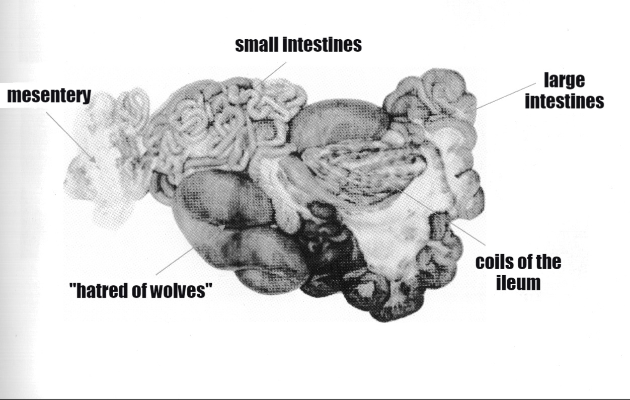 Digestive tract of ruminant, with anatomical names